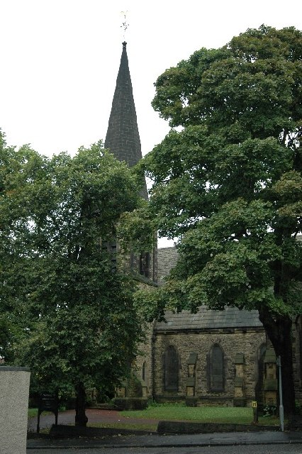 Soutwest tower and spire of St Helen's parish church, Low Fell, Gateshead, Tyne and Wear